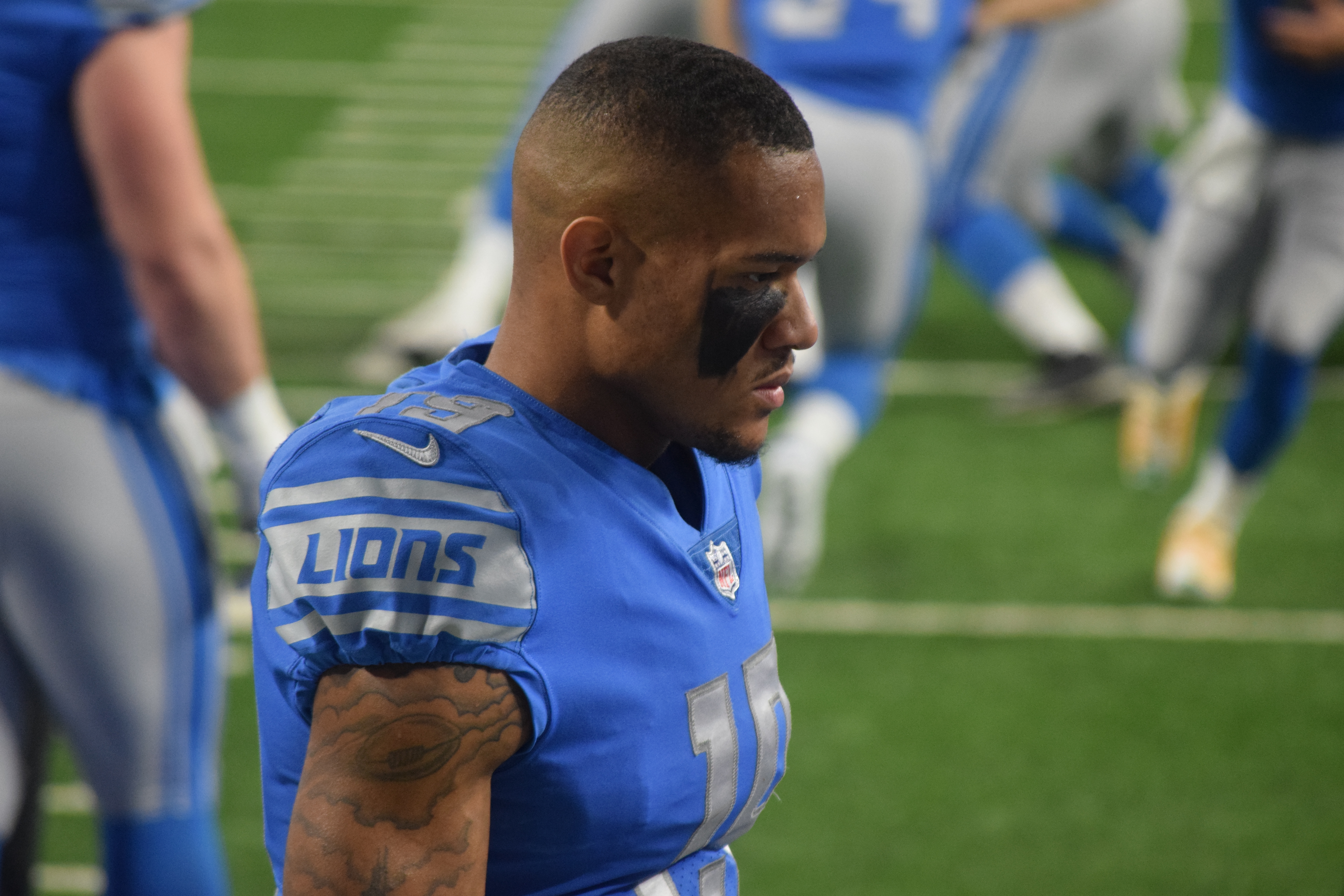 Kenny Golladay In Detroit Lions Uniform before a game on December 2, 2018